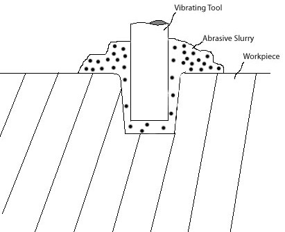 A diagram of an ultrasonic machining operation.